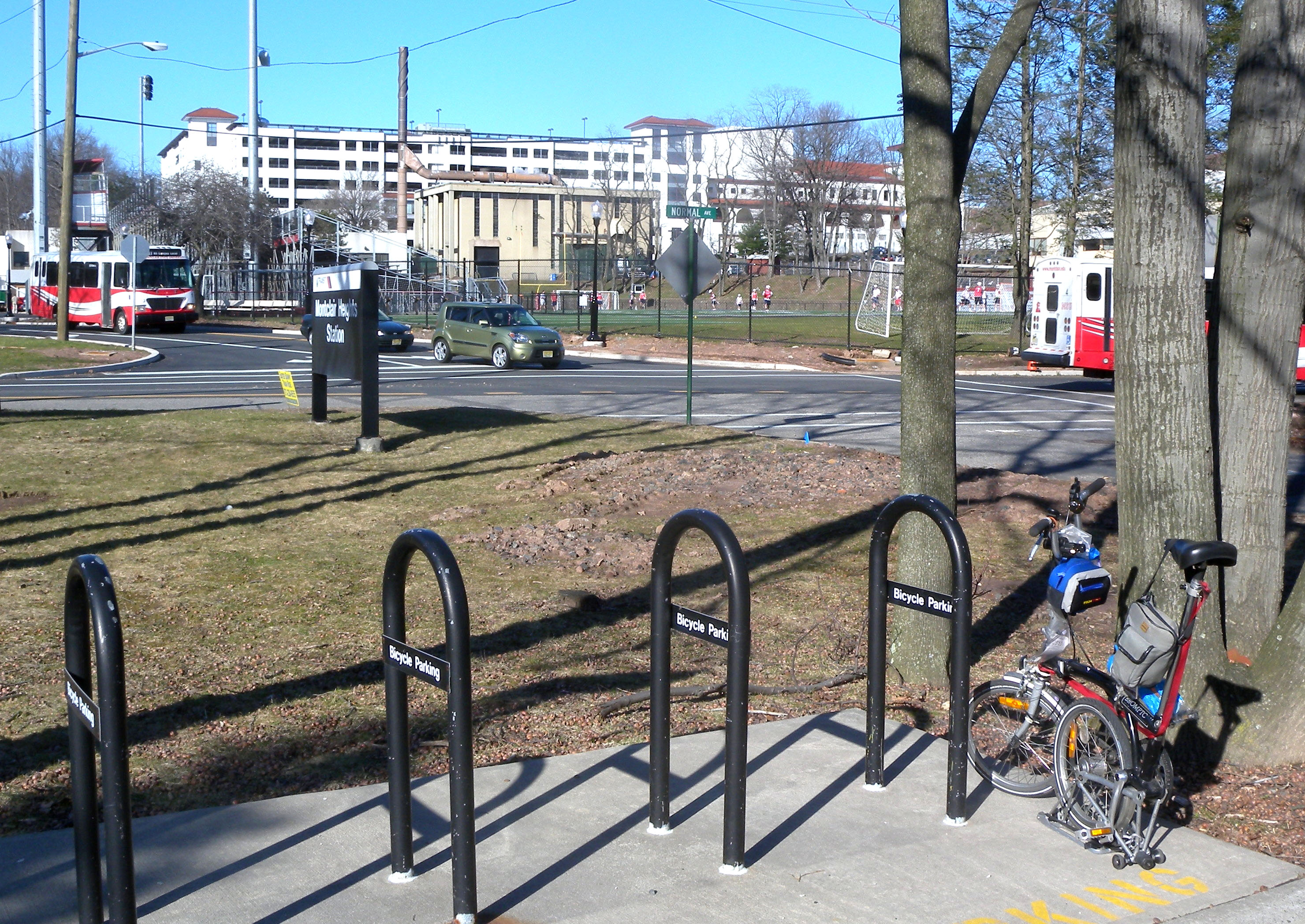 Looking north at A type bike racks on the northeast side of Montclair Heights (NJT station) on a sunny afternoon. Unracked Brompton is photographer's.